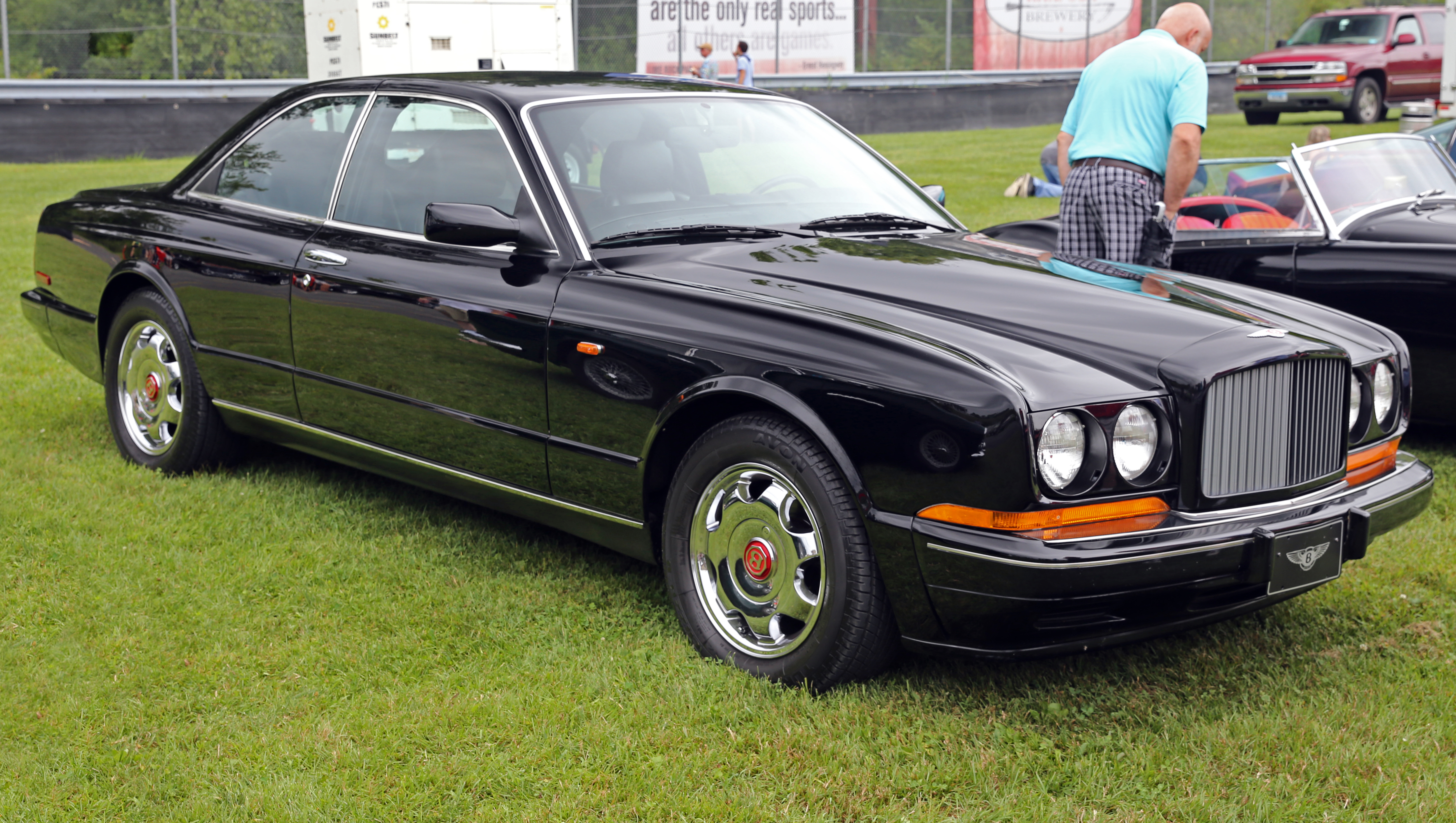 A 1995 Bentley Continental R at the 2014 Lime Rock Concours d'Élegance. Twin airbags, catalyzed engine with a "cross-bolted crankshaft", whatever that may mean.